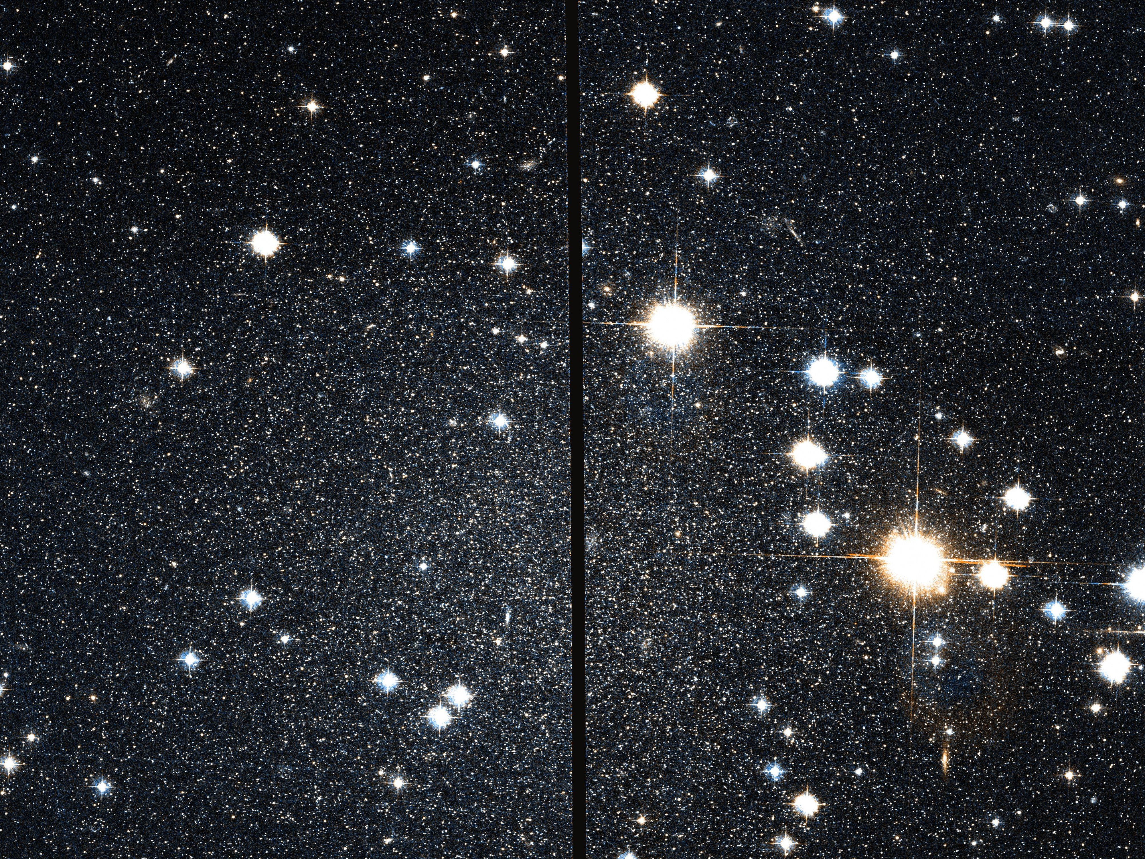 Cassiopeia Dwarf (PGC 2807155) galaxy by Hubble space telescope